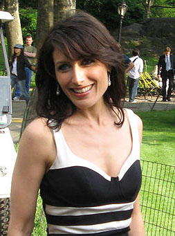 Lisa Edelstein at Fox Upfronts 2007